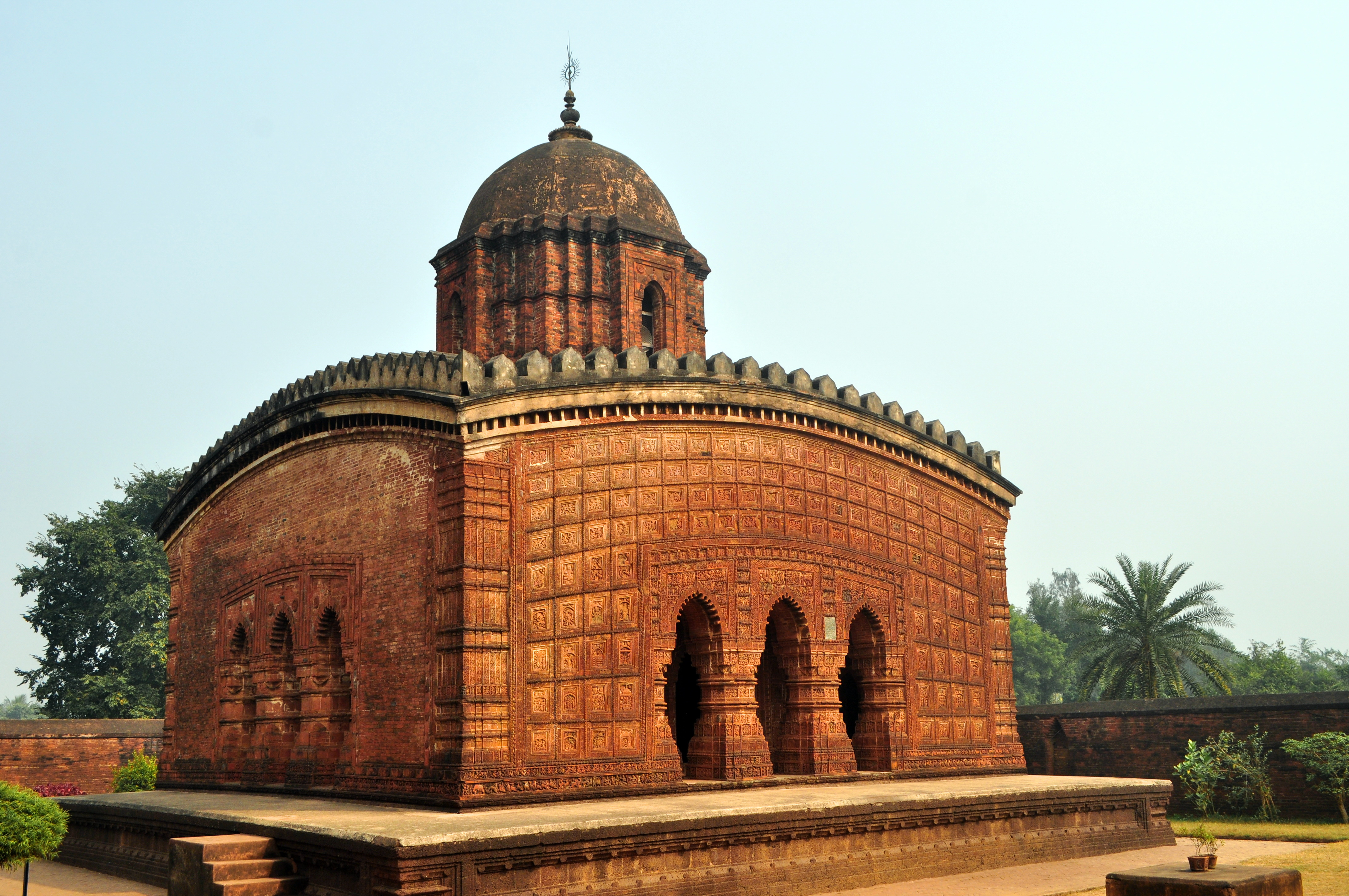 Bishnupur is a town in Bankura district in West Bengal, around 140 km from Kolkata. The town is famous for its unique terracotta temples constructed between 17th and 18th centuries during the reign of Malla kings that ruled here. Around 30 temples from that era still survive and out of these around 20 temples are now renovated and maintained by Archeological Survey of India (ASI). The intricate terracotta pallets that are found on the walls of the temples depict the mythological stories from Ramayana and Krishna Lila and some on hunting, on domestic and wild animals. A one day trip from Kolkata to the town of Bisnupur is something of worth considering!